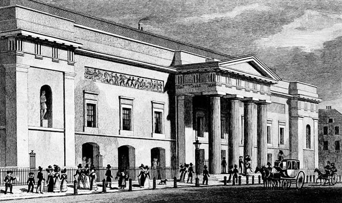 Exterior of the Theatre Royal, Drury Lane, published in 1828.